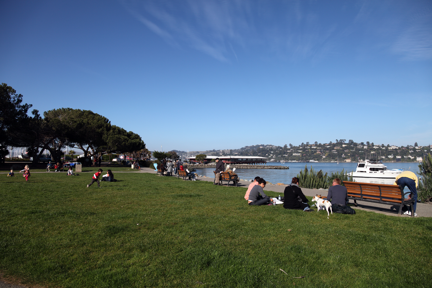 Gabrielson Memorial Park, Sausalito, California